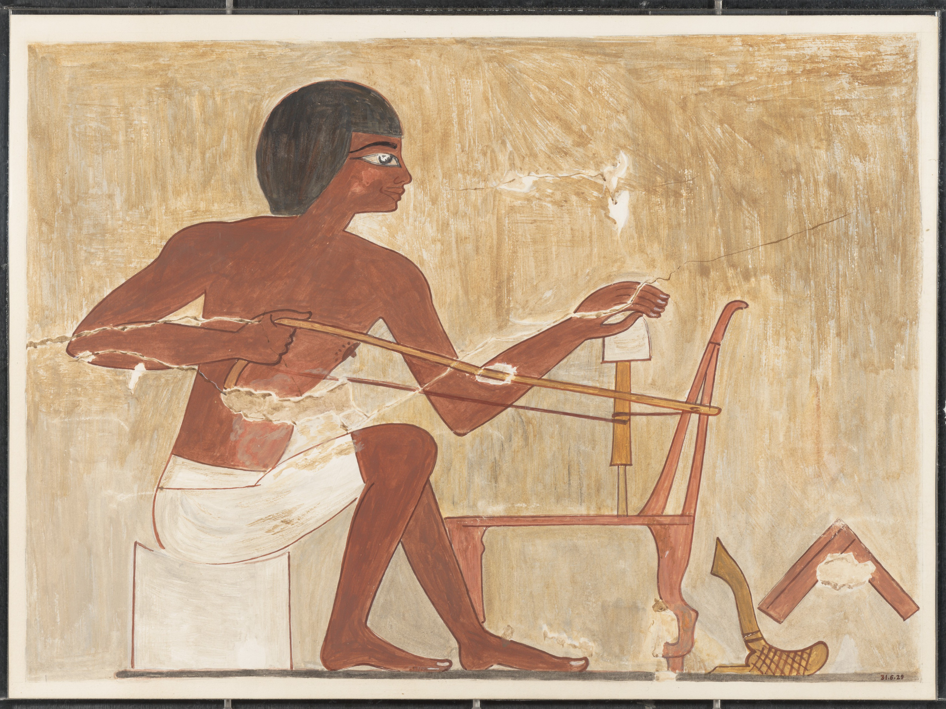 Facsimile, Rekhmire (TT 100), carpenter, bow drill